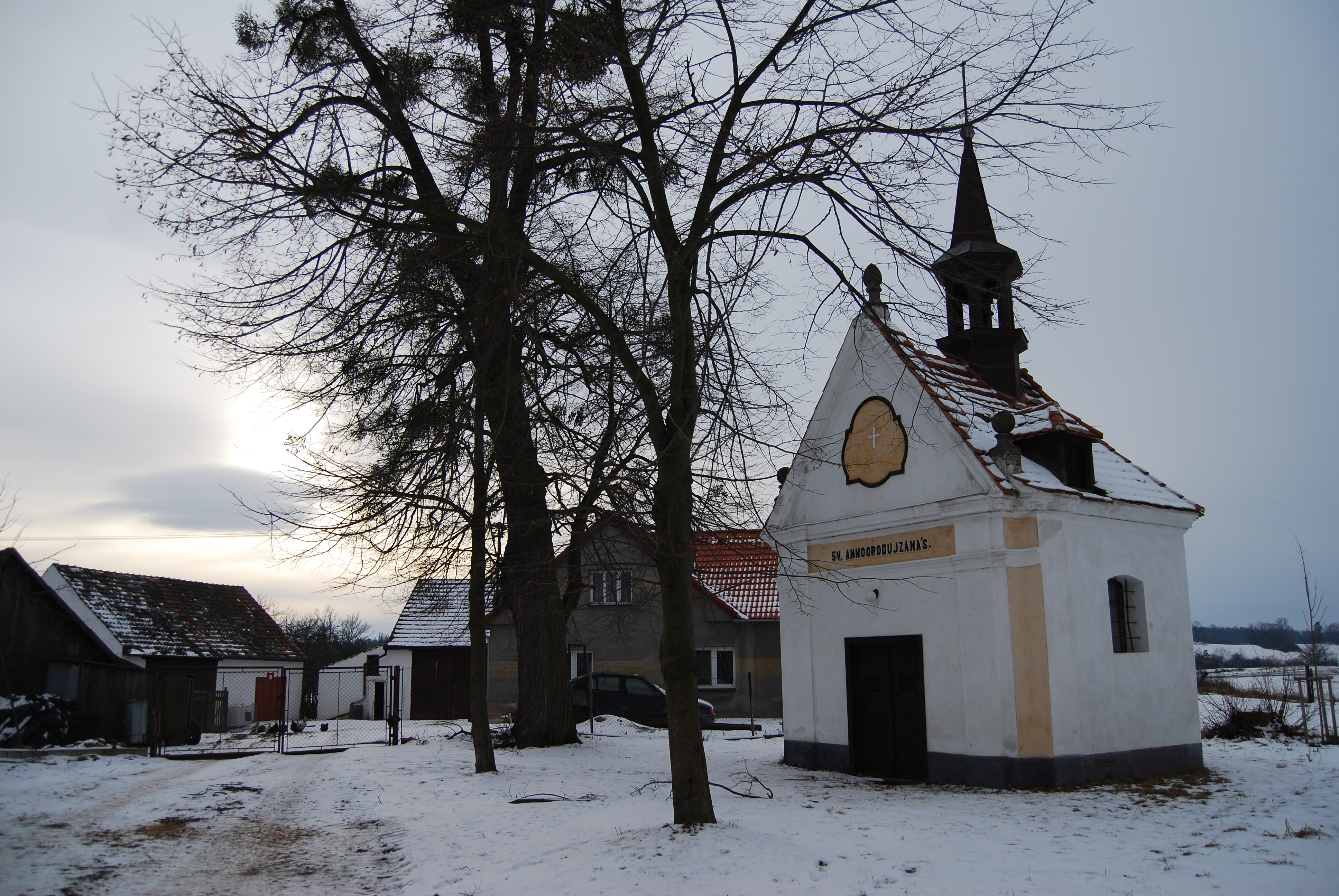 Kožlí u Čížové village, Písek district, Czech Republic. Chapel